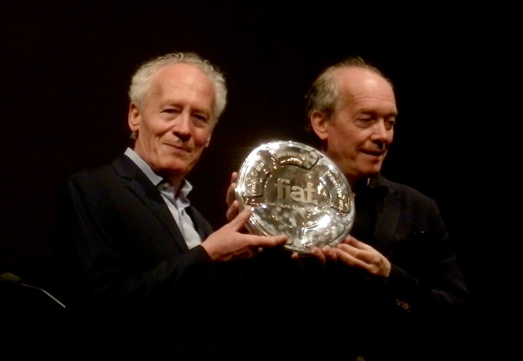 The Dardenne brothers receive the FIAF award in Bologna's Teatro Comunale in 2016